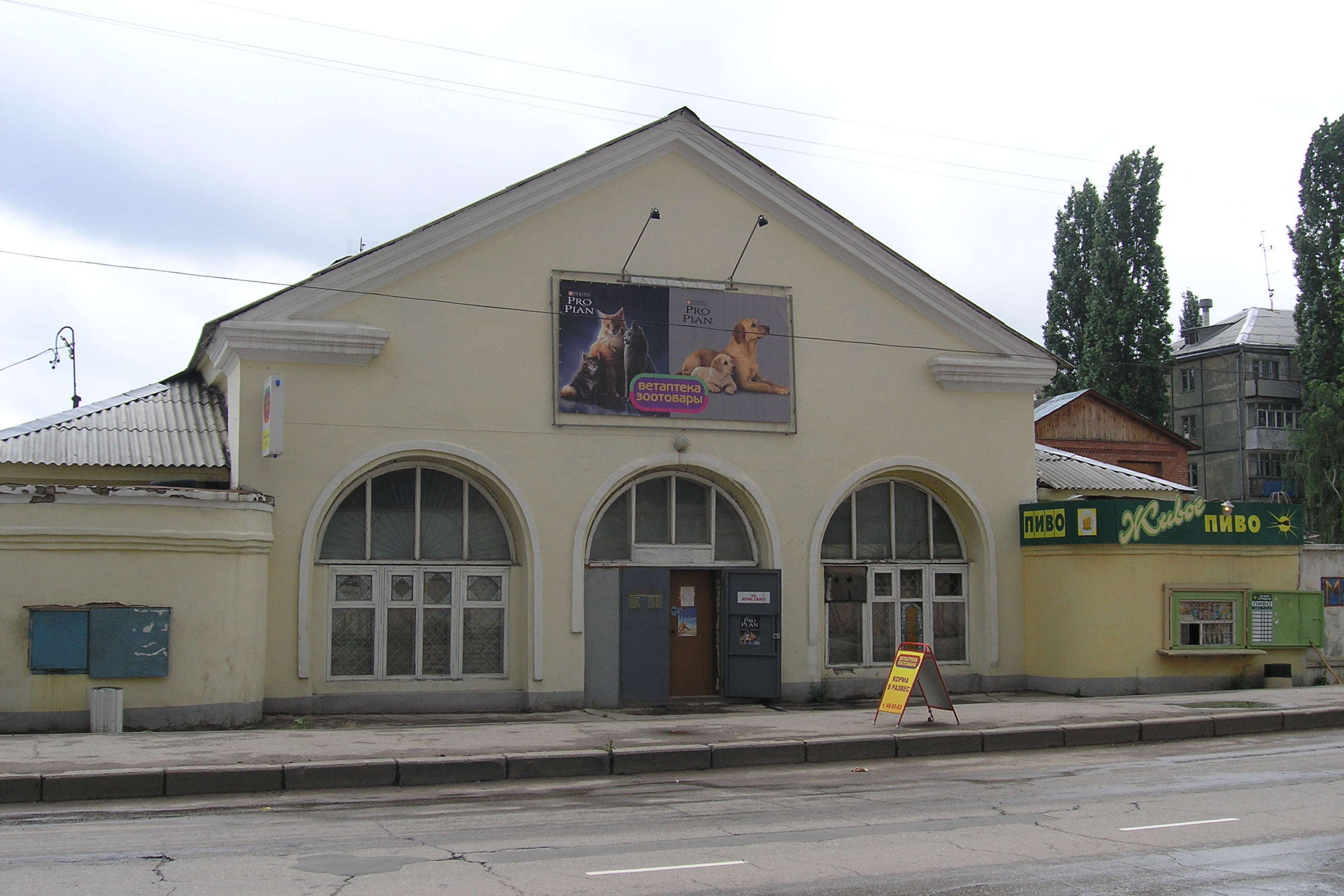 First shop in Stavropol, Russia